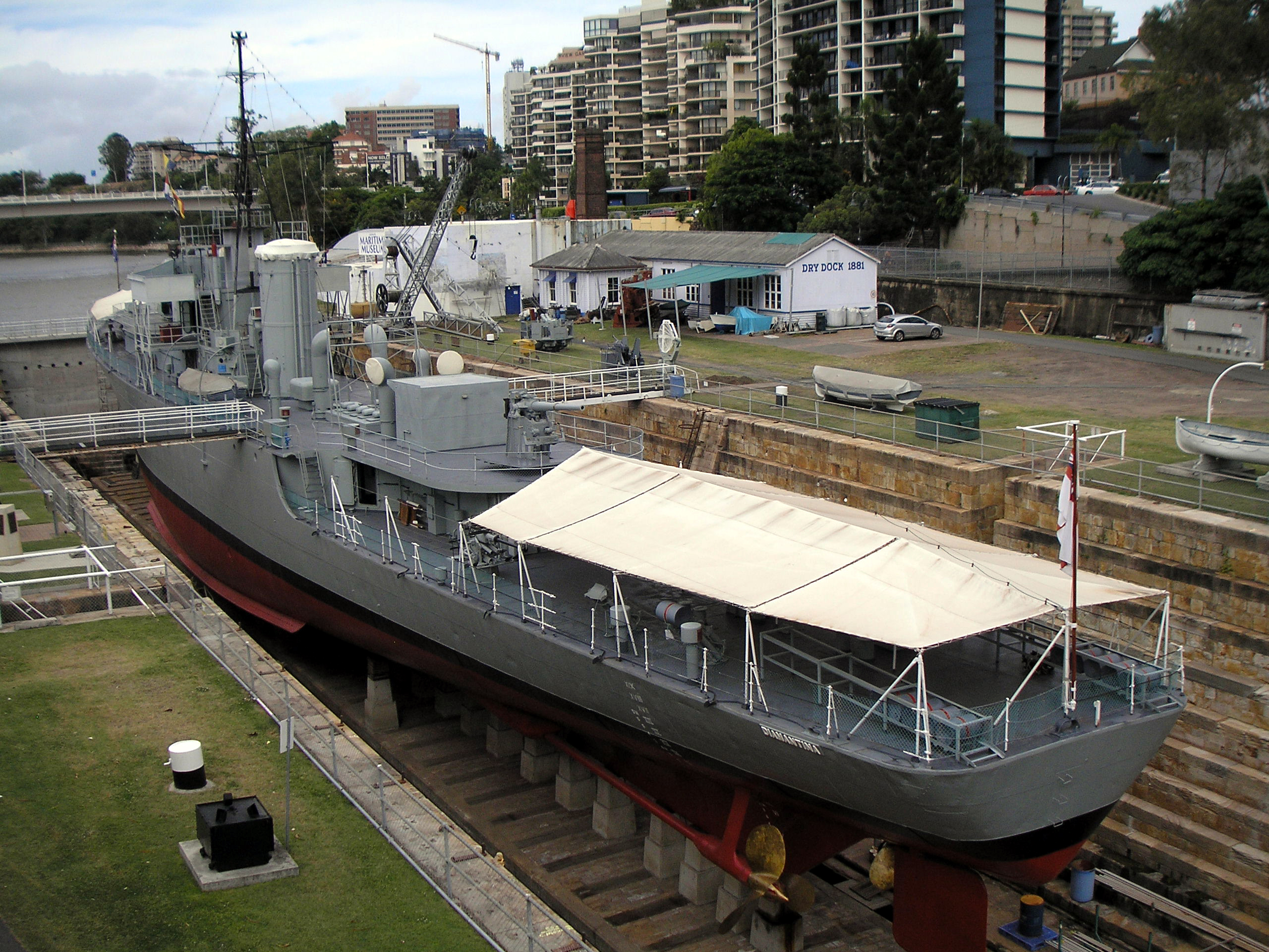 Stern view of the former HMAS Diamantina at the Queensland Maritime Museum in March 2008